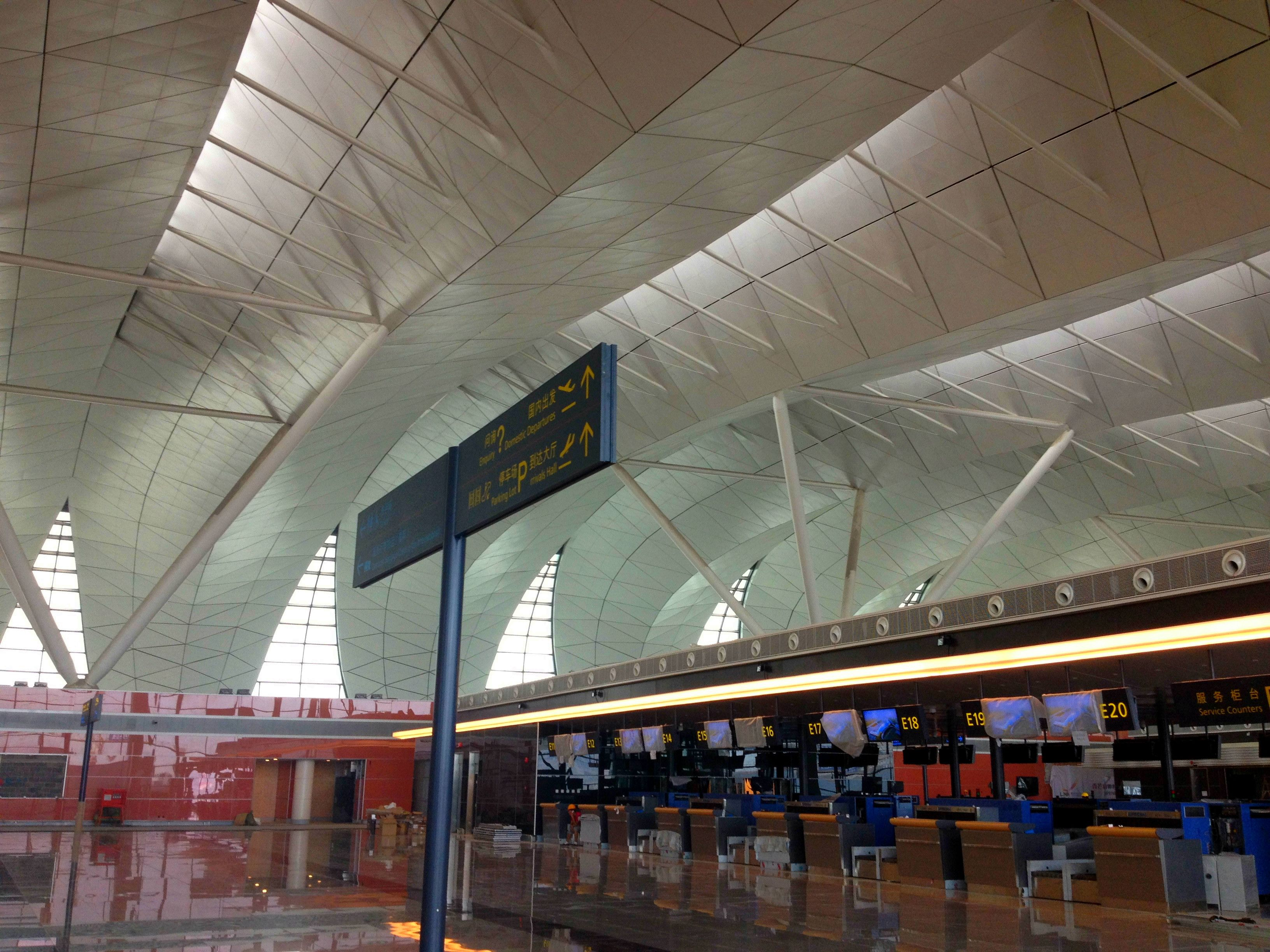 interior of Shenyang Taoxian International Airport